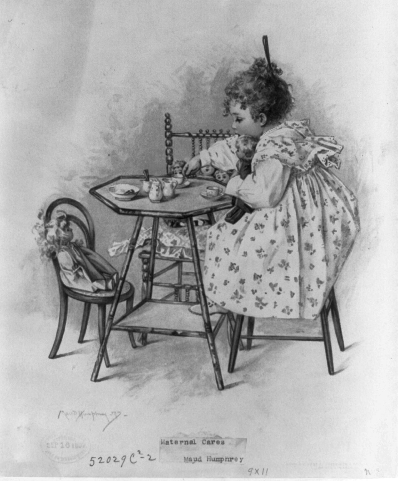 Little girl at small table with dolls and toy china.